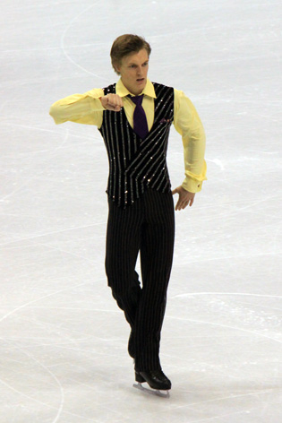 Tomas Verner at the 2009 Skate America.